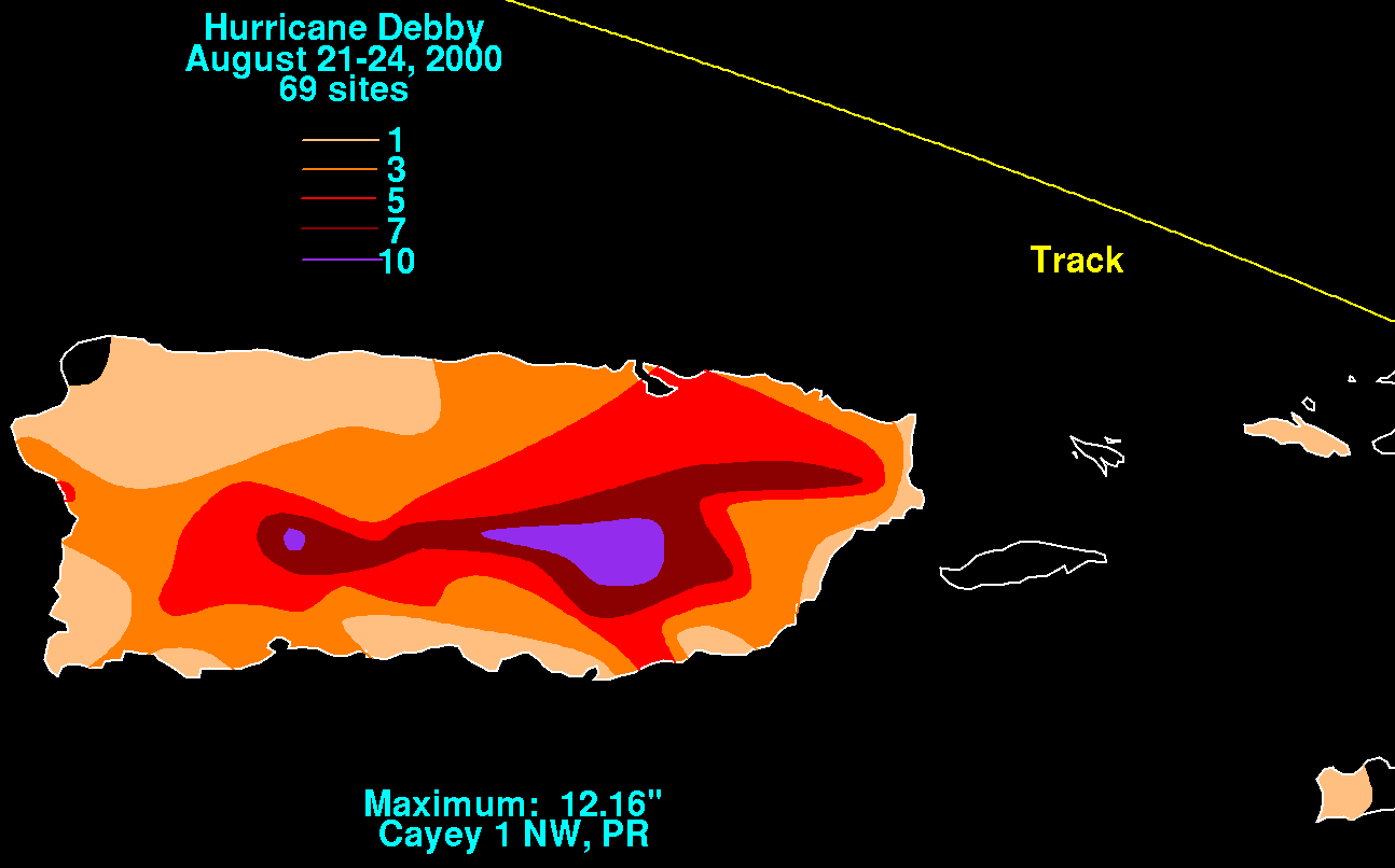 Storm total rainfall map of Hurricane Debby during August 2000.